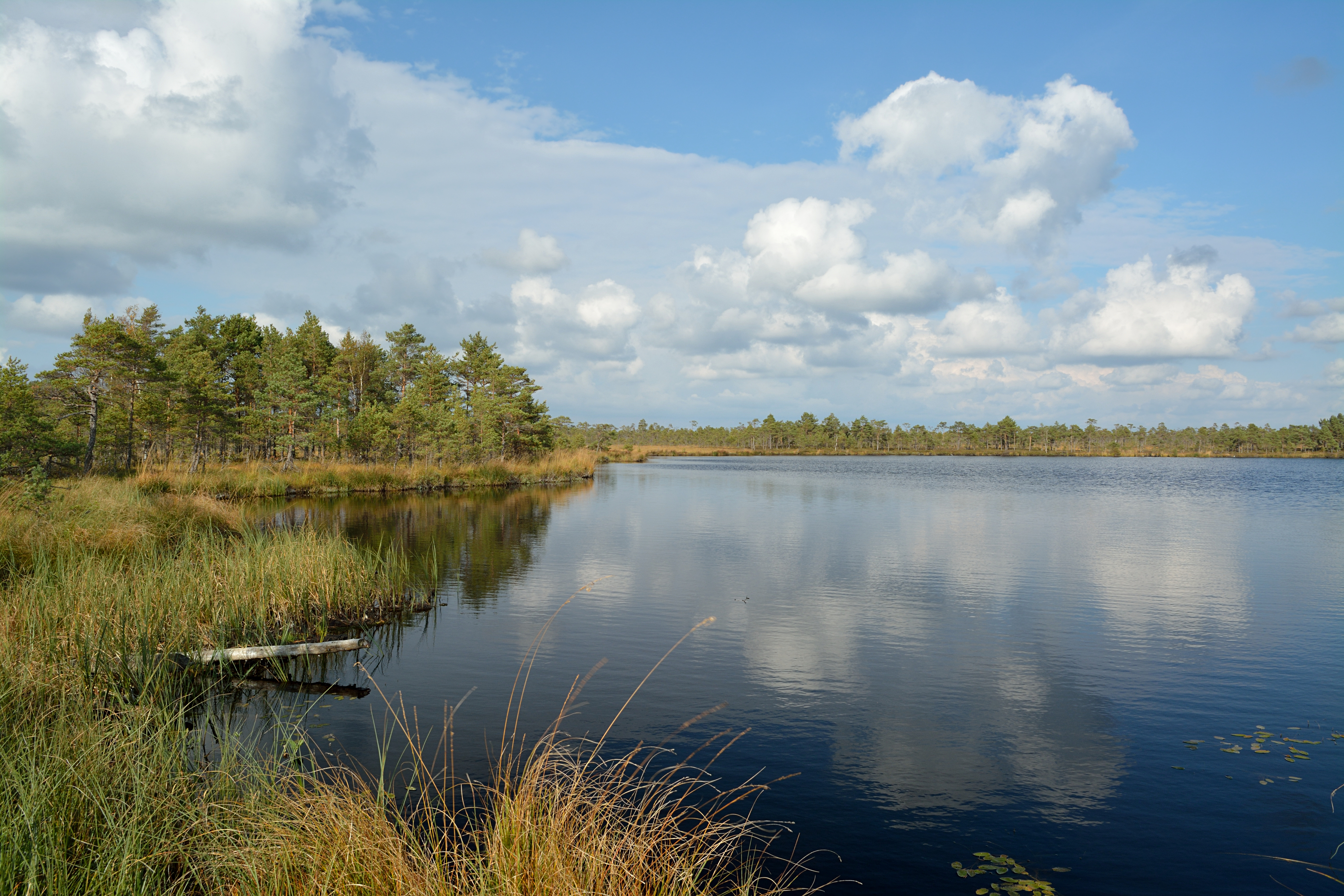 Öördi lake, Soomaa National Park.